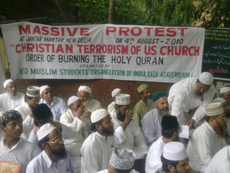 MSO along with other organizations organised a Massive Protest against Dove world Centre for its Call for Quran burning on 9/11